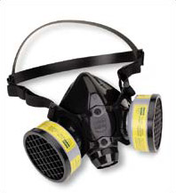 North 7700 Series Half Mask Air-Purifying Respirator